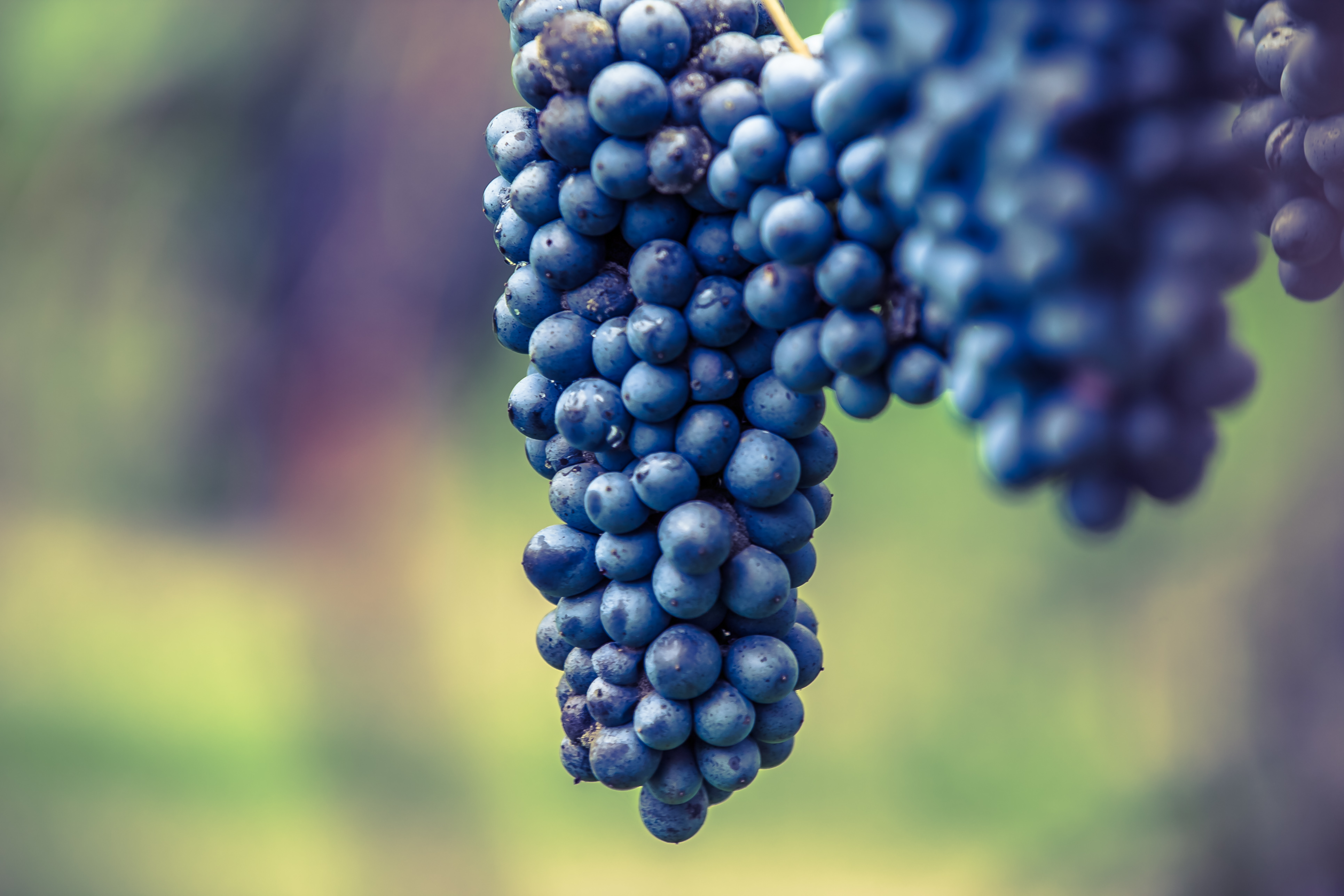 A bunch of grapes ready to become a tasty Lambrusco wine Location: Oasi Le Pradine, Mirabello (Ferrara), Emilia Romagna, Italy WATCH THE STORY "Feel Free": (A visual story by JOIN US ON FACEBOOK